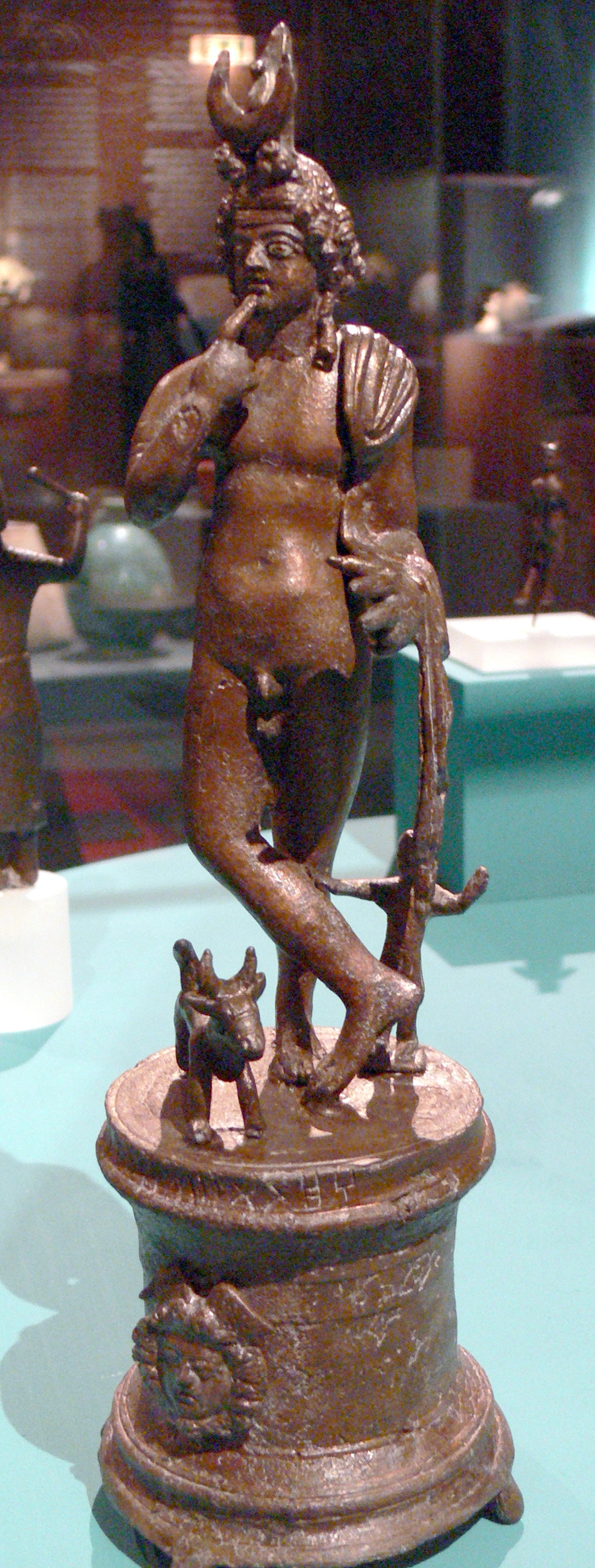 Pergamon Museum ( Berlin ). Exhibition "Roads of Arabia": Statuette of Harpocrates with name of owner or artist ( 1st/3rd century AD ), bronze, Th. max. 9,2 cm, from Qaryat al-Faw ( Department of Archaeology Museum, King Saud University, Riyadh ).